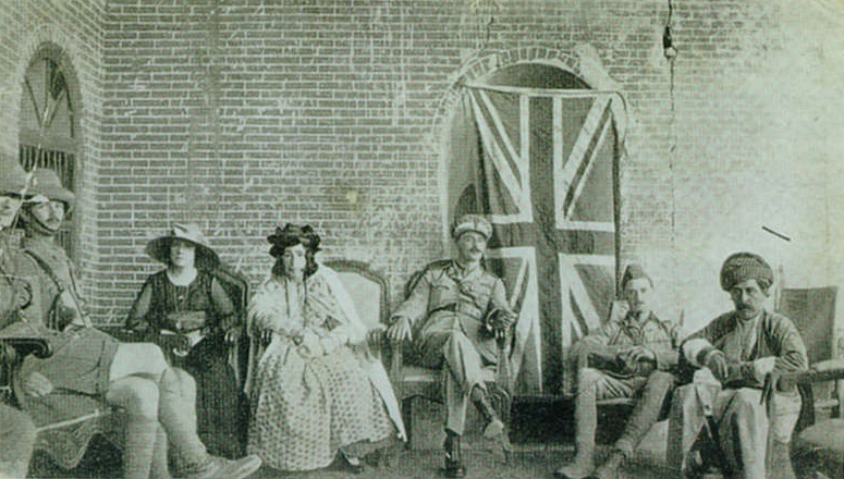 Author:"Percival Richards" British photographer working for the British Army in Mesopatamia, 1919. Source:[1] and [2] According to Crown Copyright [3], protection in published material lasts for fifty years from the end of the year in which the material was first published.